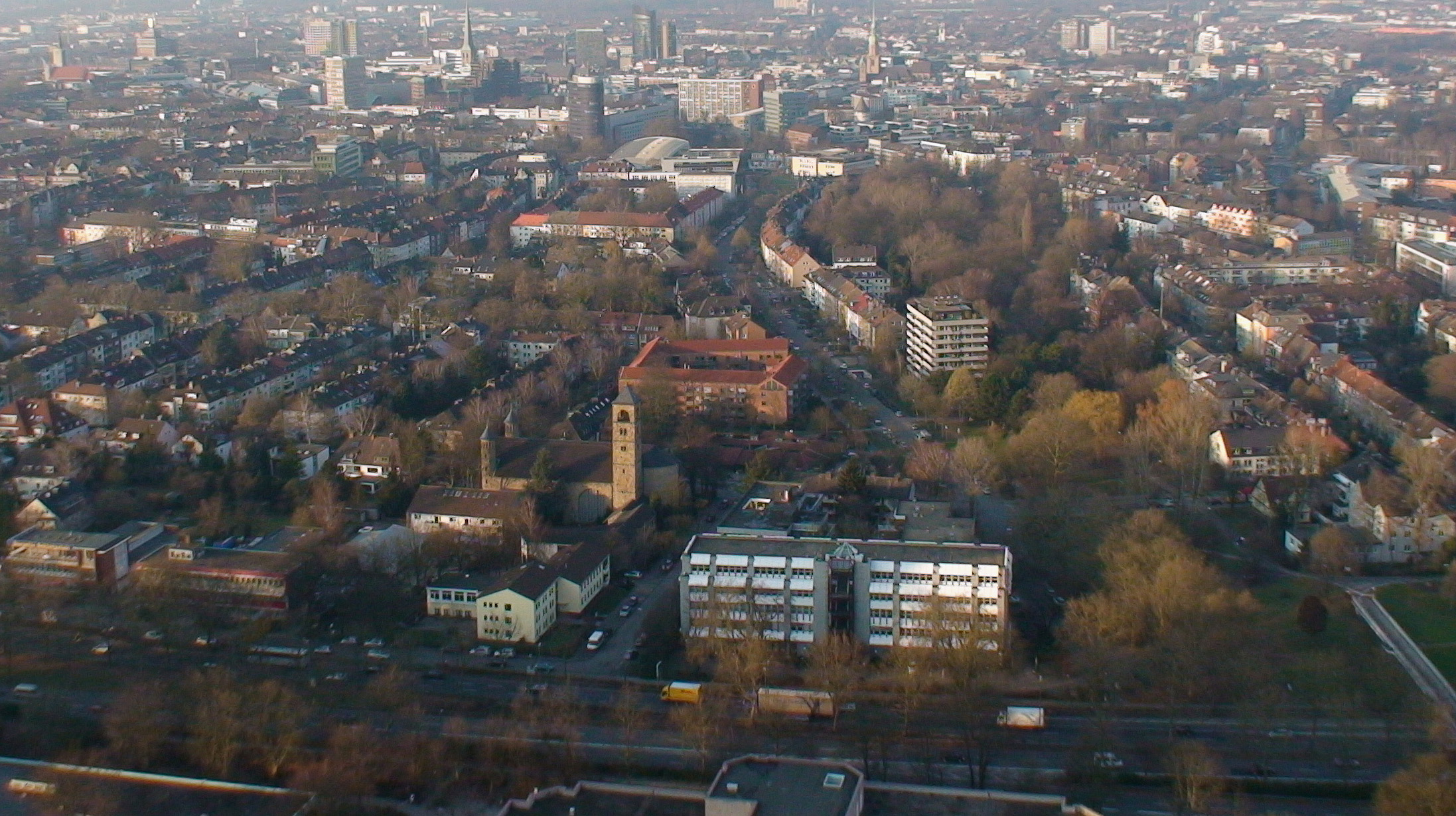 Dortmund-Ruhrallee-East, view from the TV-tower. In the foreground Rheinlanddamm (B 1), Bonifatius church, on the right the Stadewäldchen. In the background the city centre.